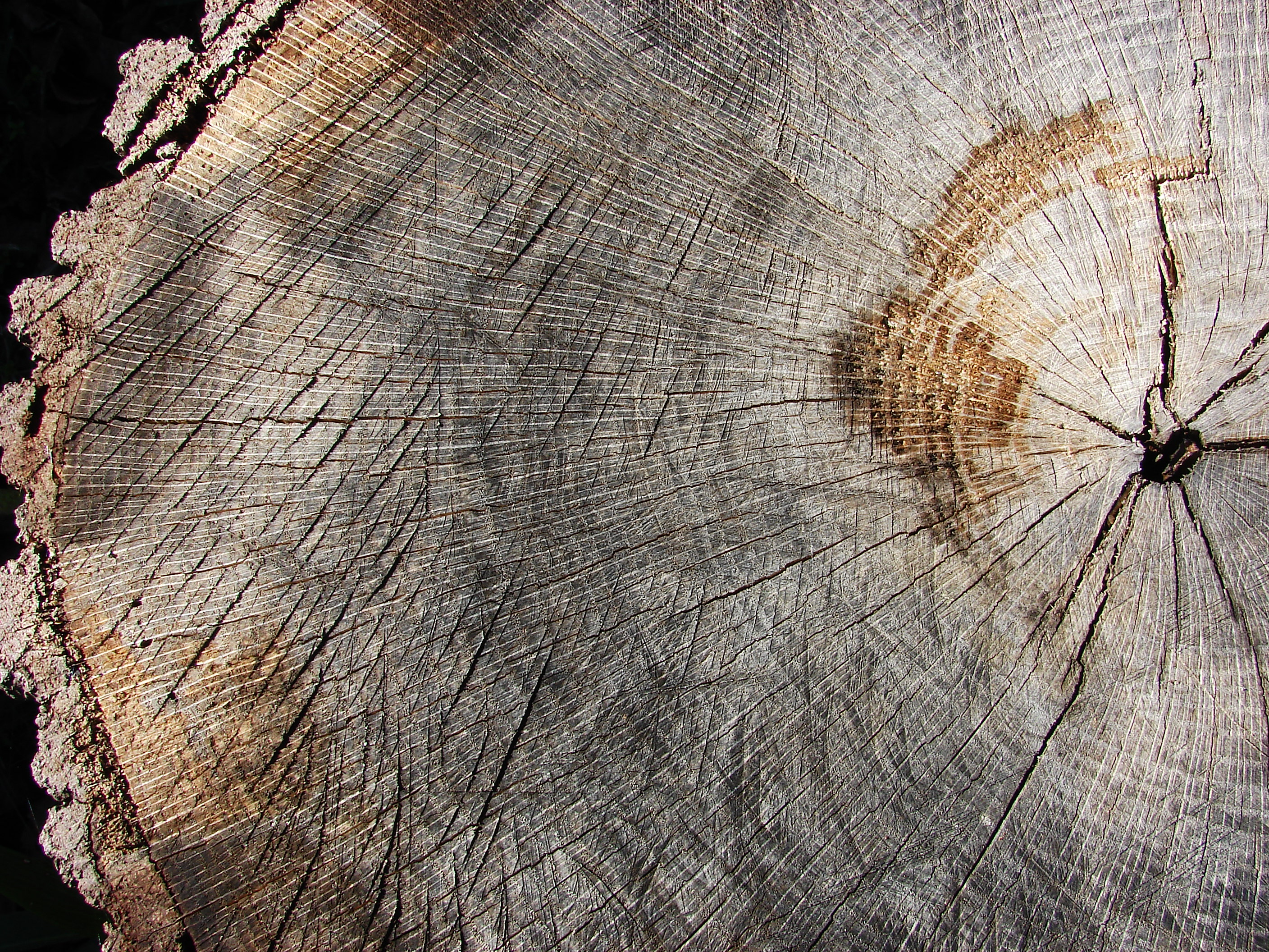 Blackjack oak (Quercus marilandica) tree stump, approx. 75 years old, in Arlington, Texas.